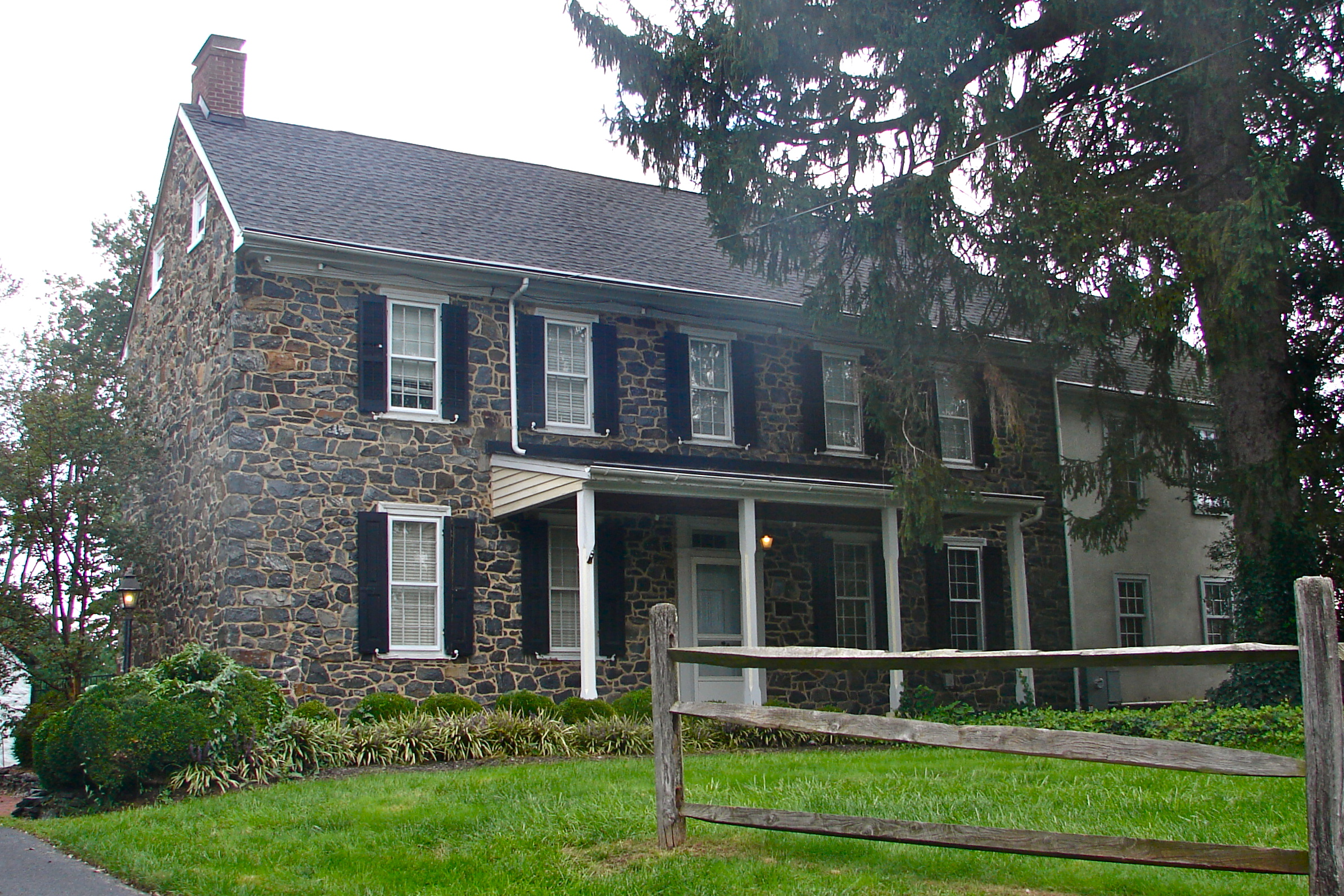 Hersey-Duncan House on the NRHP since November 15, 1990. At 2116 Duncan Rd., Mill Creek Hundred, near Wilmington , Delaware.